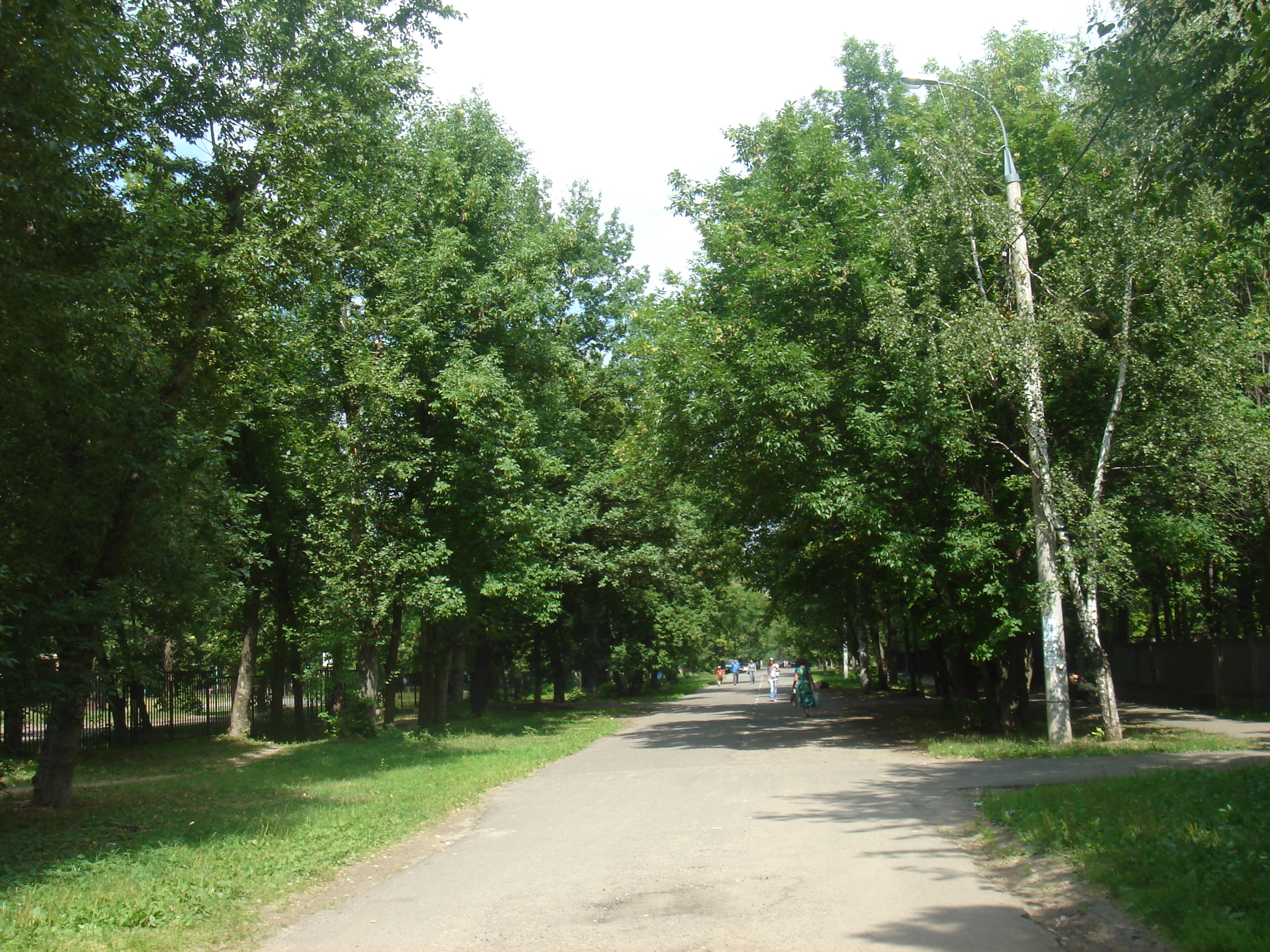 Moscow. Losinoostrovsky district. Norilskaya street.